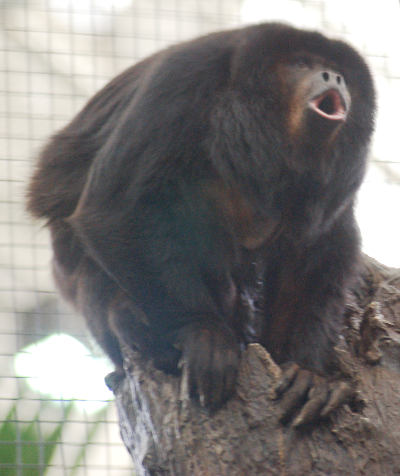 A photograph of a Black Howler Monkeyen (Alouatta caraya en ). Photo taken at the Pittsburgh Zoo.